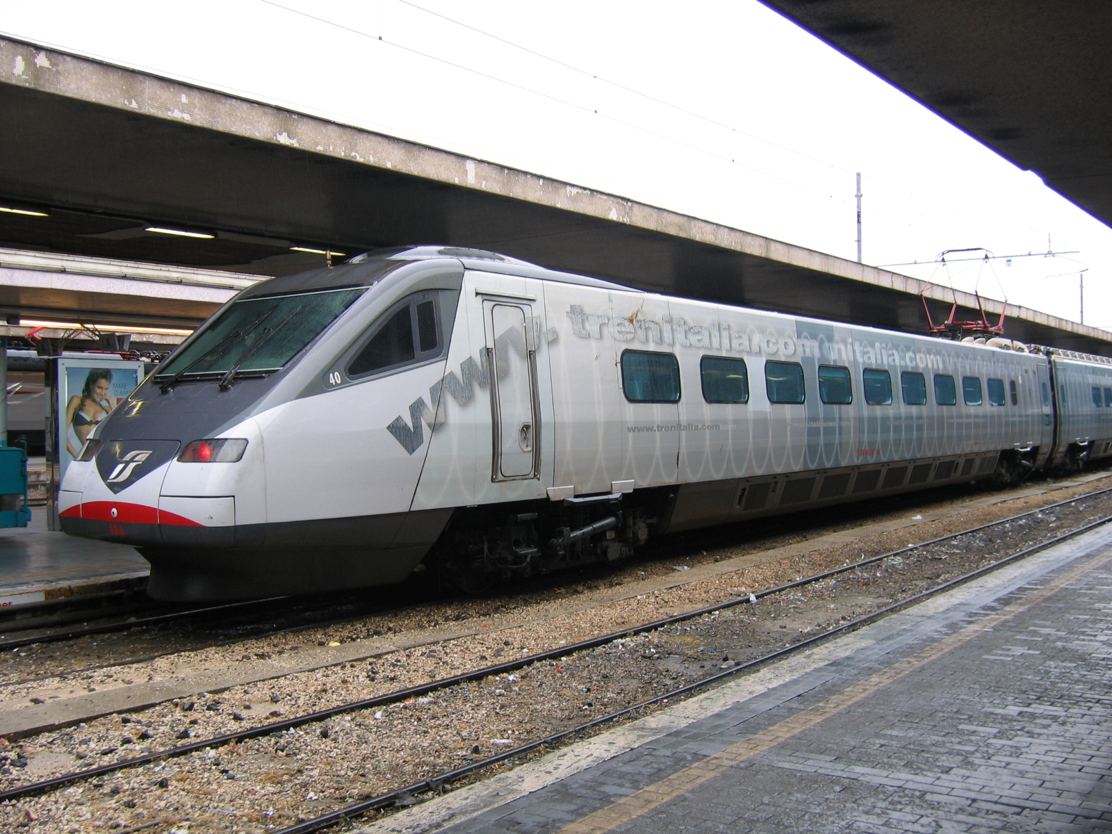 ETR480.10 engine 40A in Roma Termini with paintwork. Author: Jollyroger. 2 june 2006.jpg